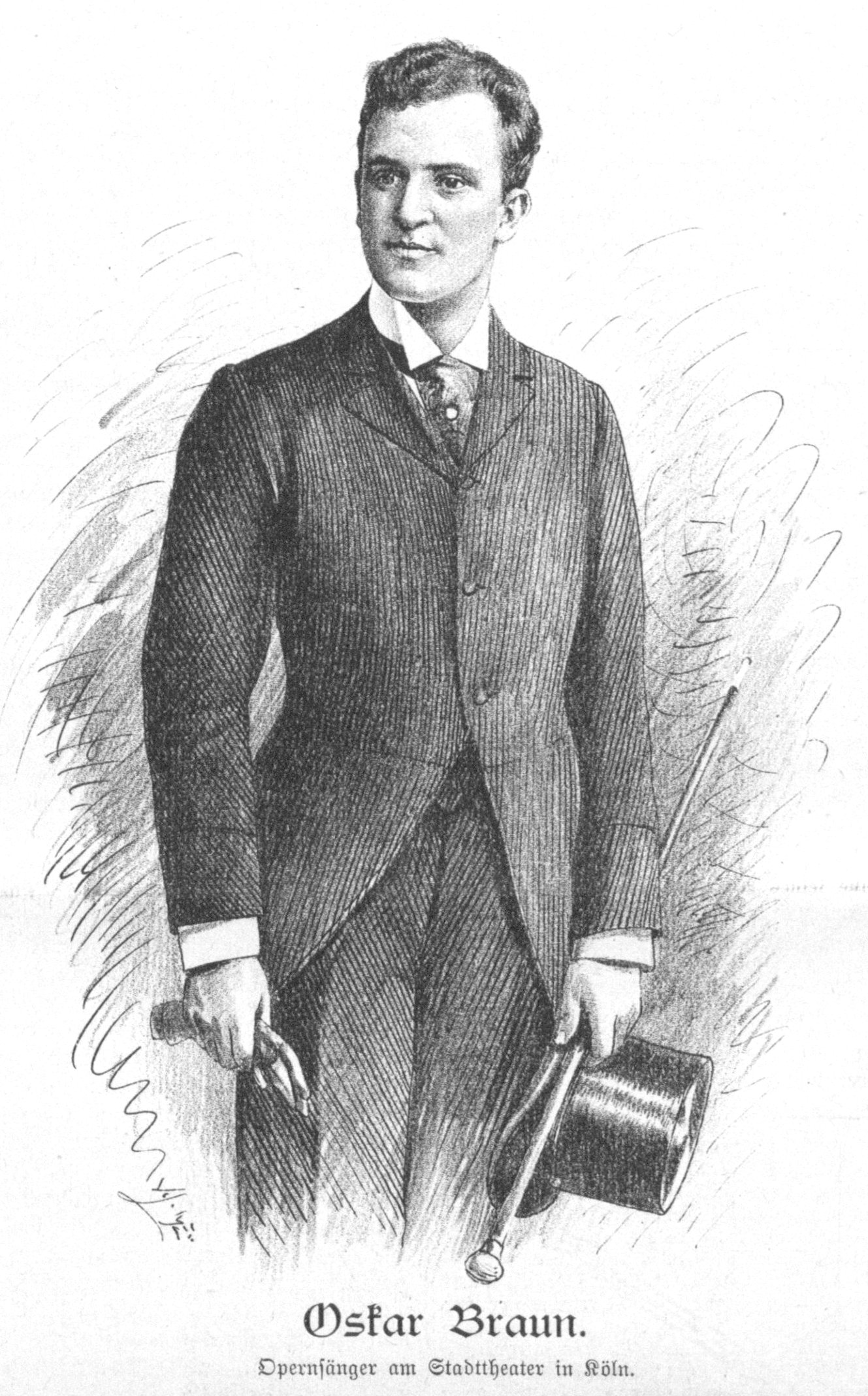 Portrait of Oskar Braun (1867-??), German opera singer.